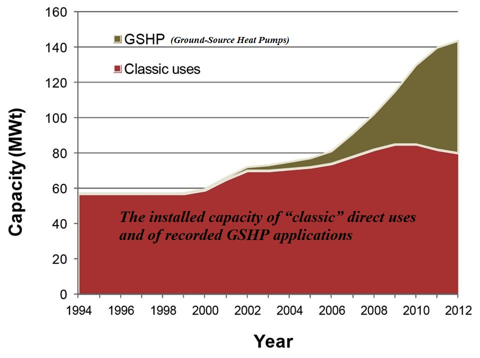 The installed capacity of “classic” direct uses and of recorded GSHP applications since 1994